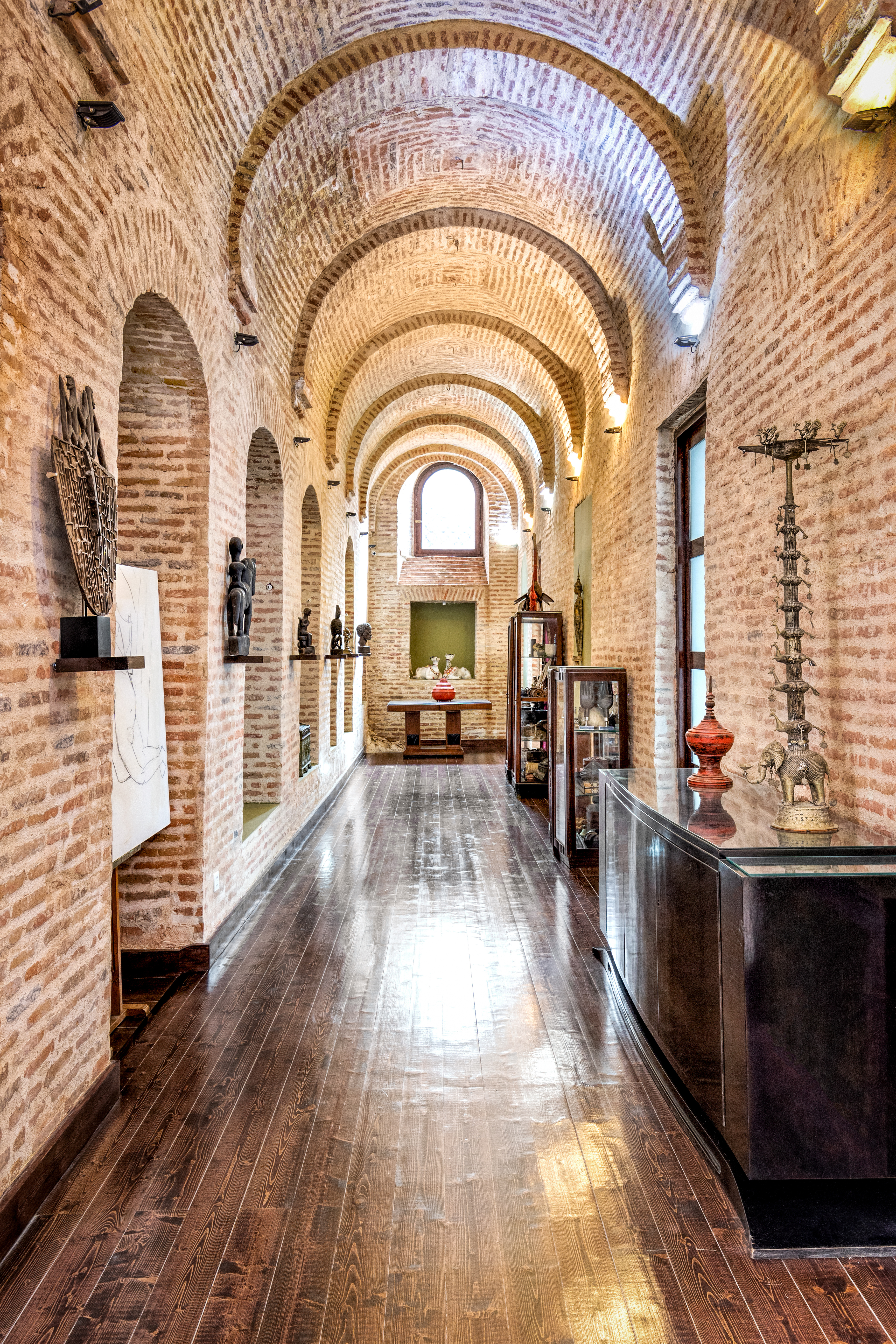 La Residence, Castle in Old Town, Tbilisi, Georgia. The main corridor of the castle was built in 16th century. Located in the Old Tbilisi, Georgia at the right foot of the Narikala citadel and below the Kartlis Deda monument. Once a small fortress presumably built by the Umayyads in the 7th century destroyed during the Mongol invasions (approximately XII-th century), it was from 1621 the Residence of the Persian Shah Administrator for Eastern Georgia (Melik Bebutov family). It also hosted a small nunnery for some time (until 1921). During the Communist period (1921–1990), it was transformed into communal apartments for up to 110 individuals. It is the only privately owned Castle in Georgia.